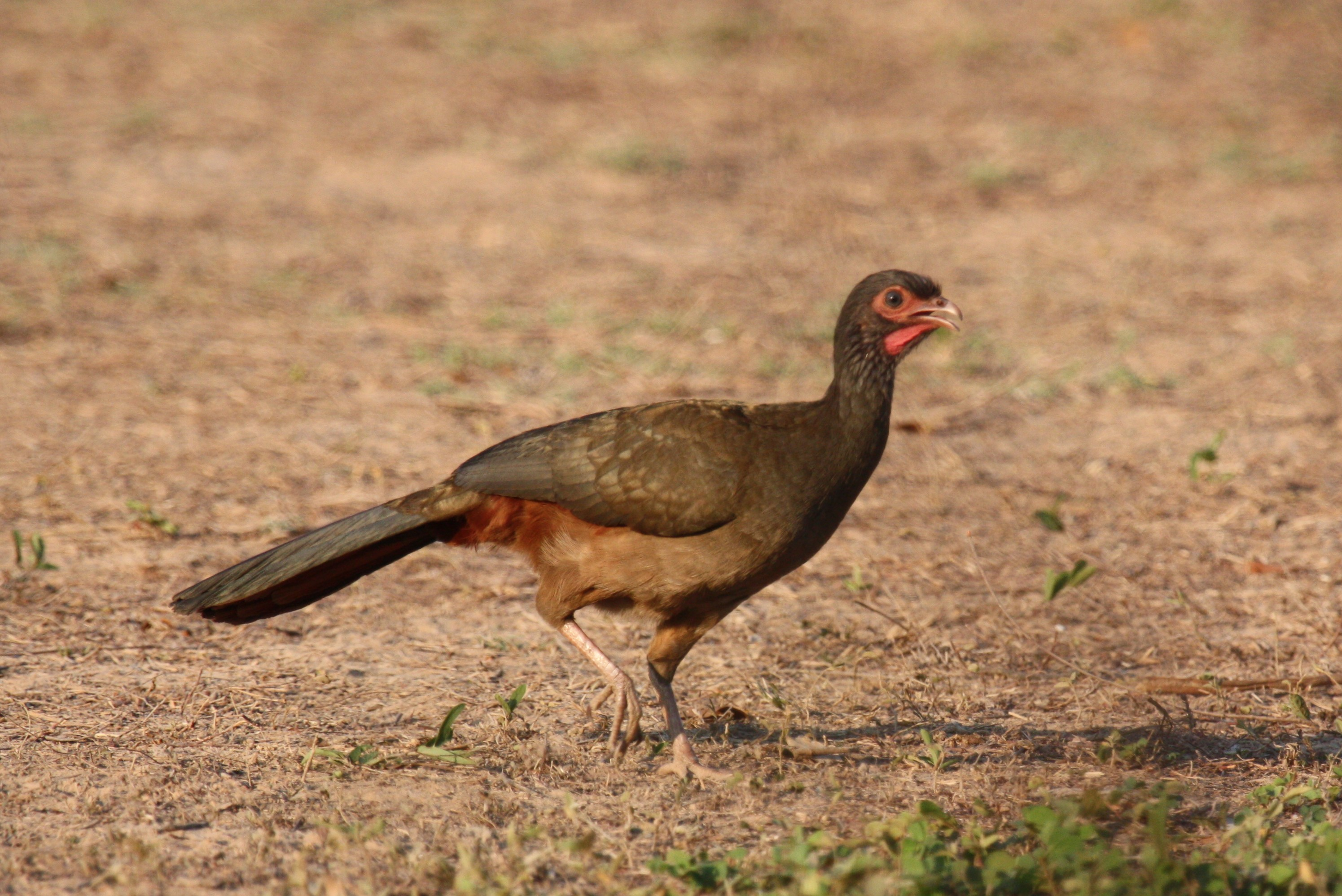 A Chaco Chachalaca in Mato Grosso do Sul, Brazil.